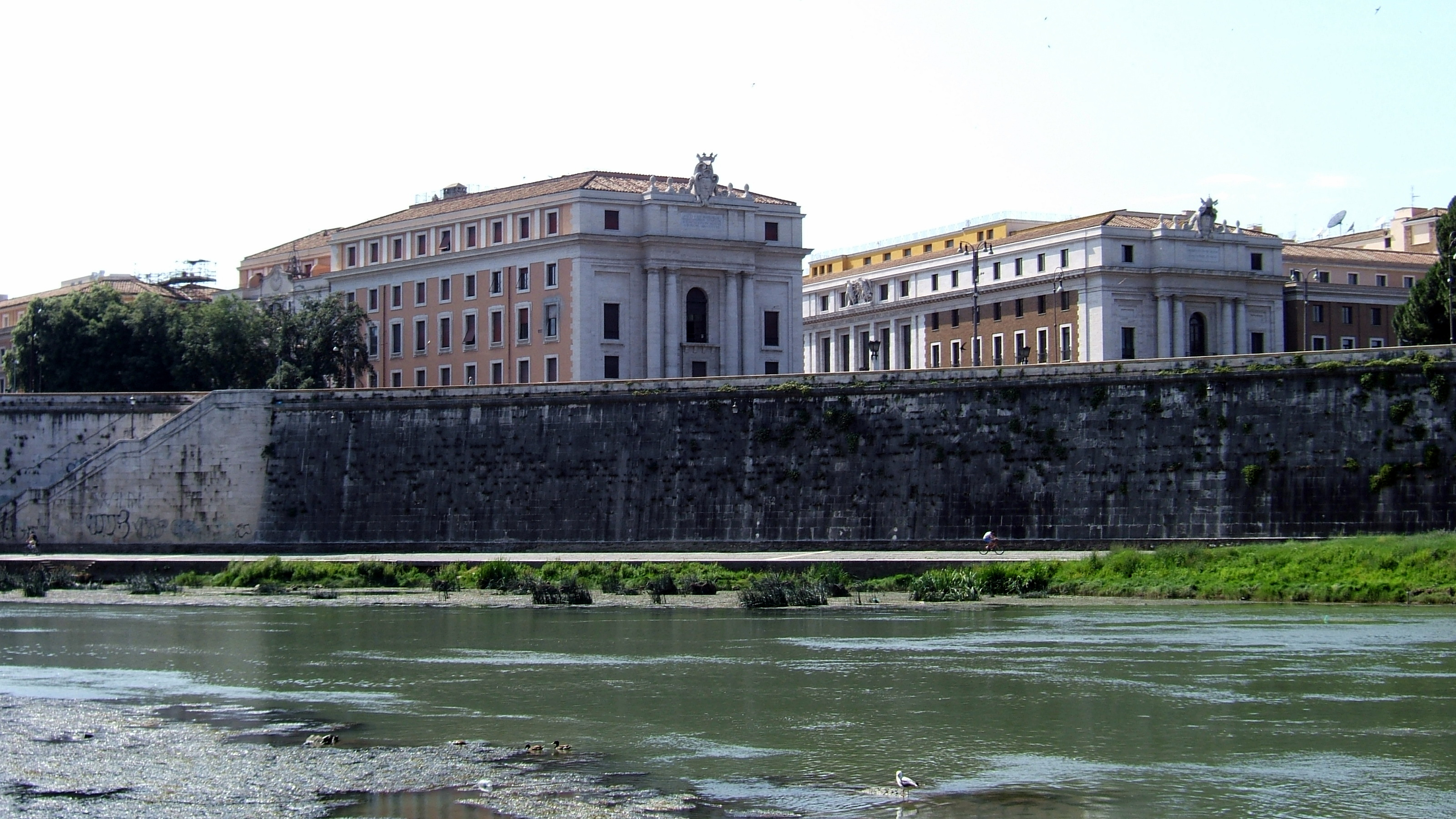 2007-06-09 in Rome